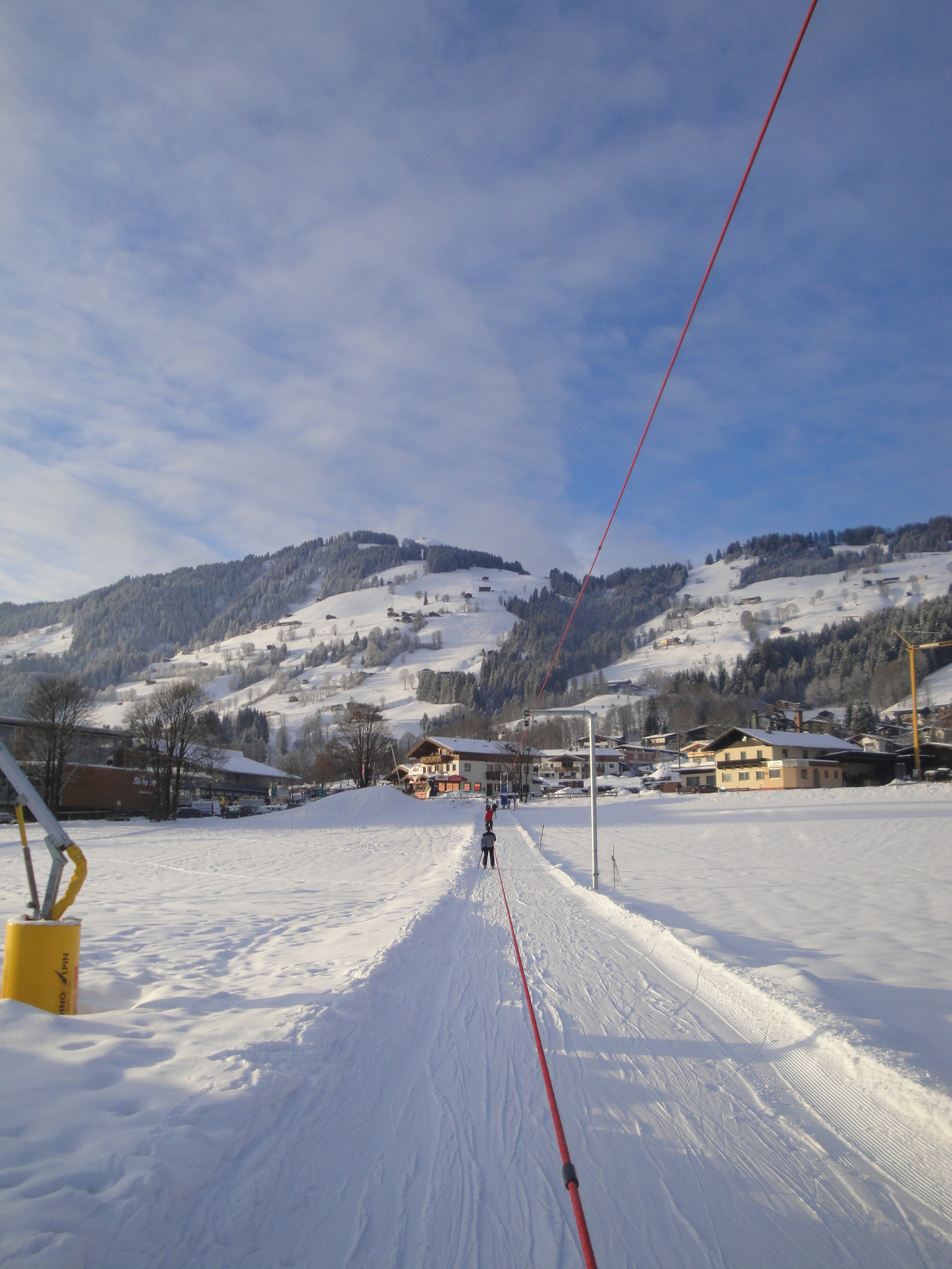 Sonnenlift in Brixen im Thale